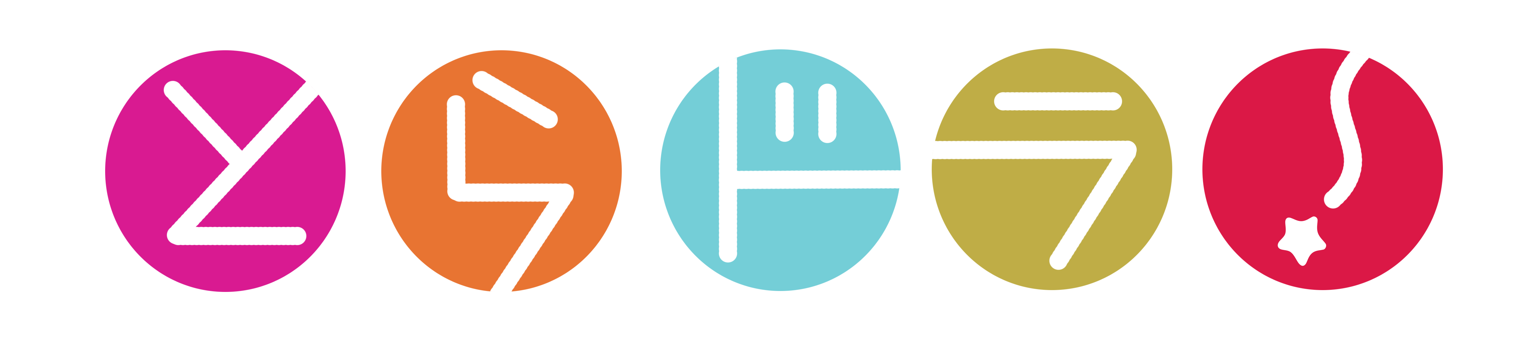 Toradora!'s logo